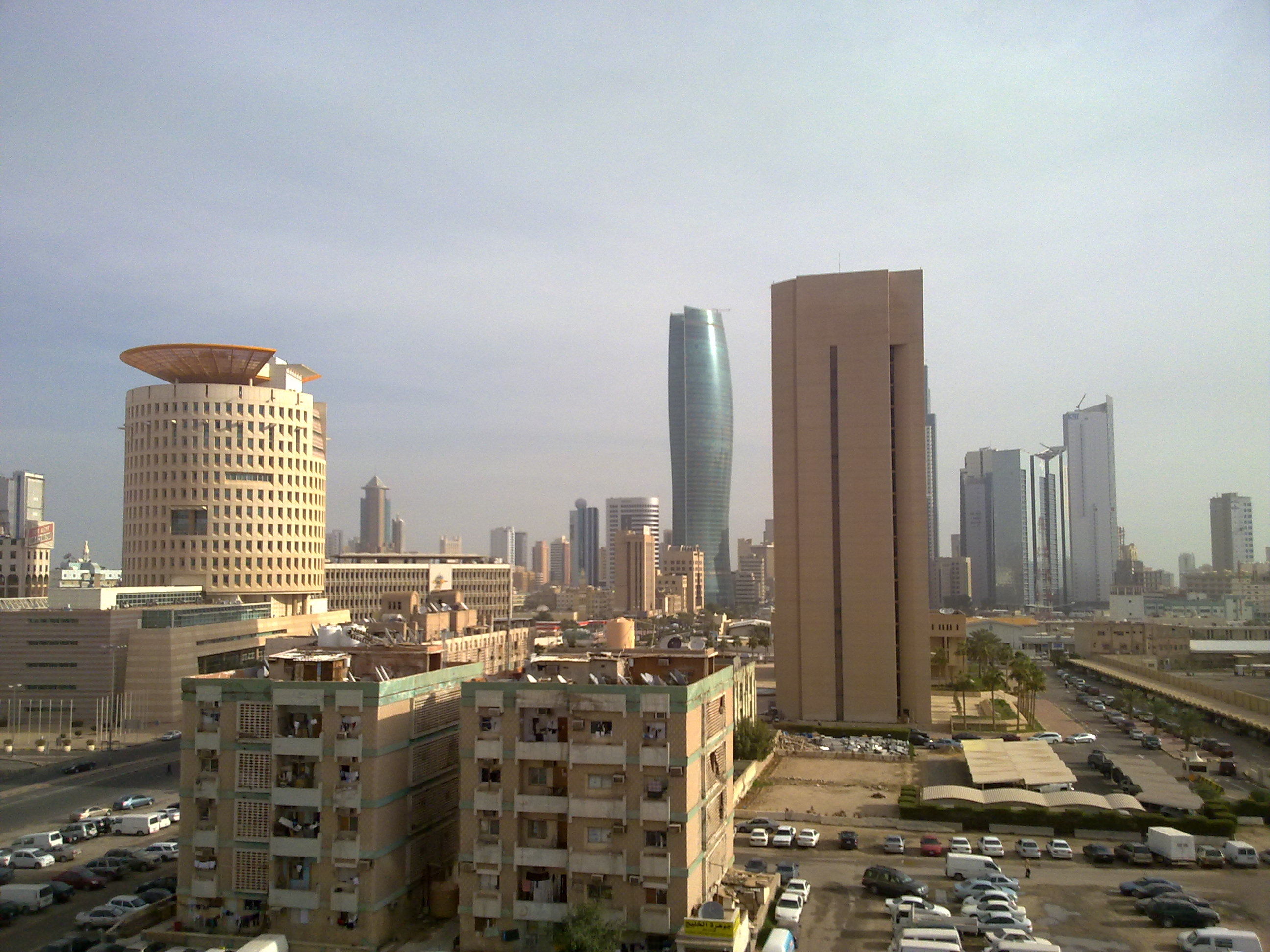 This media file is uploaded with Malayalam loves Wikimedia event - 3. kuwait